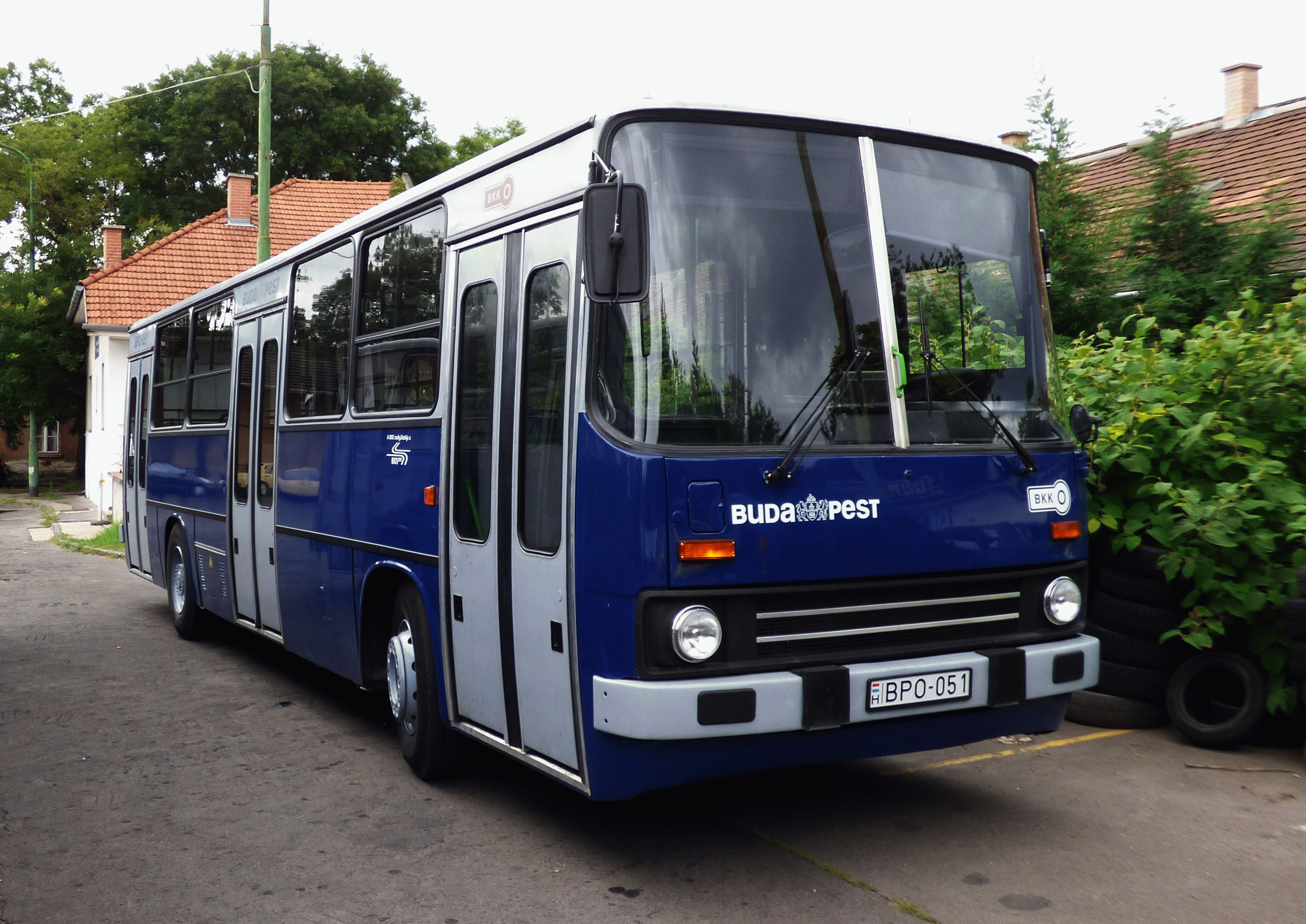 Ikarus 260 bus, Budapest (reg. BPO-051)